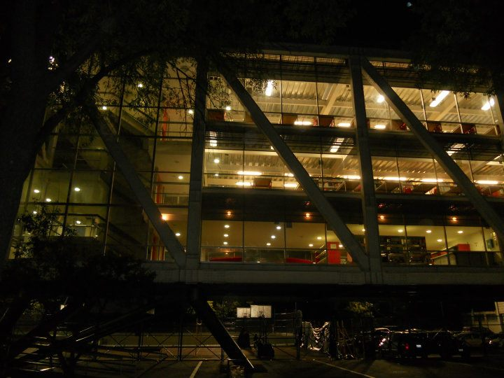 biblioteca preparatoria 6